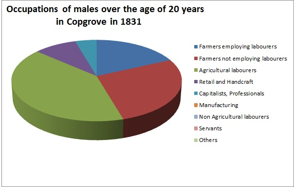 Pie chart showing how the males aged over 20 years in Copgrove in 1831 were distributed between occupations.